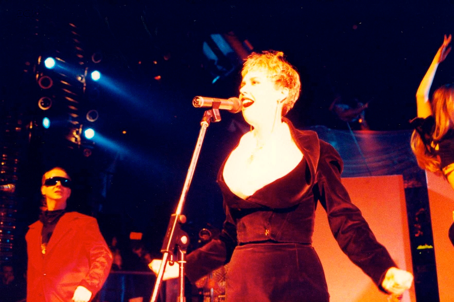 Big Bang (British Band) on stage during their lavish Arabic Circus Tour that consisted of various circus acts including acrobats, one-wheel bicycle riders, fire-eaters, jugglers, flying trapeze artists and a belly-dancing troupe